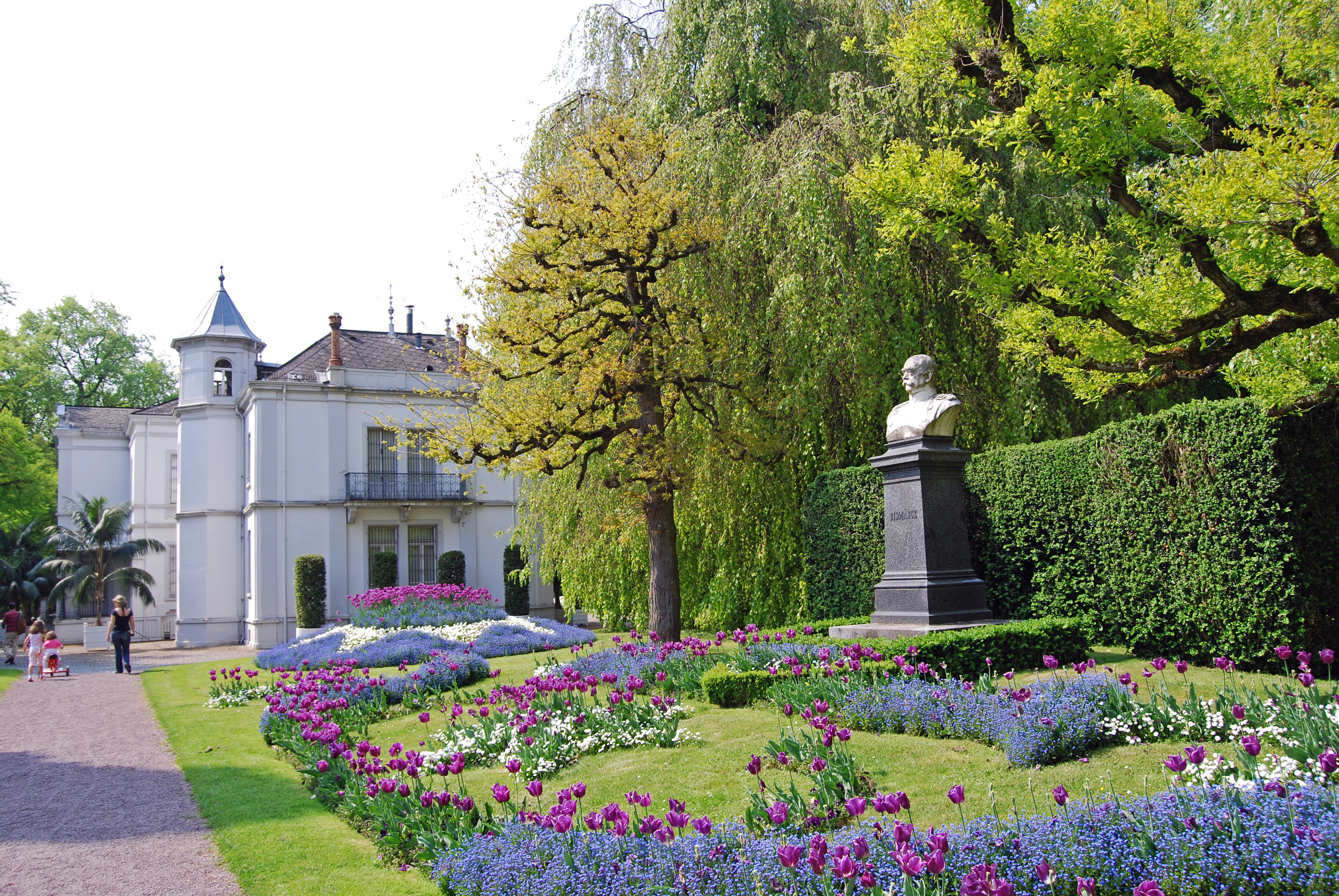 Park in Lahr